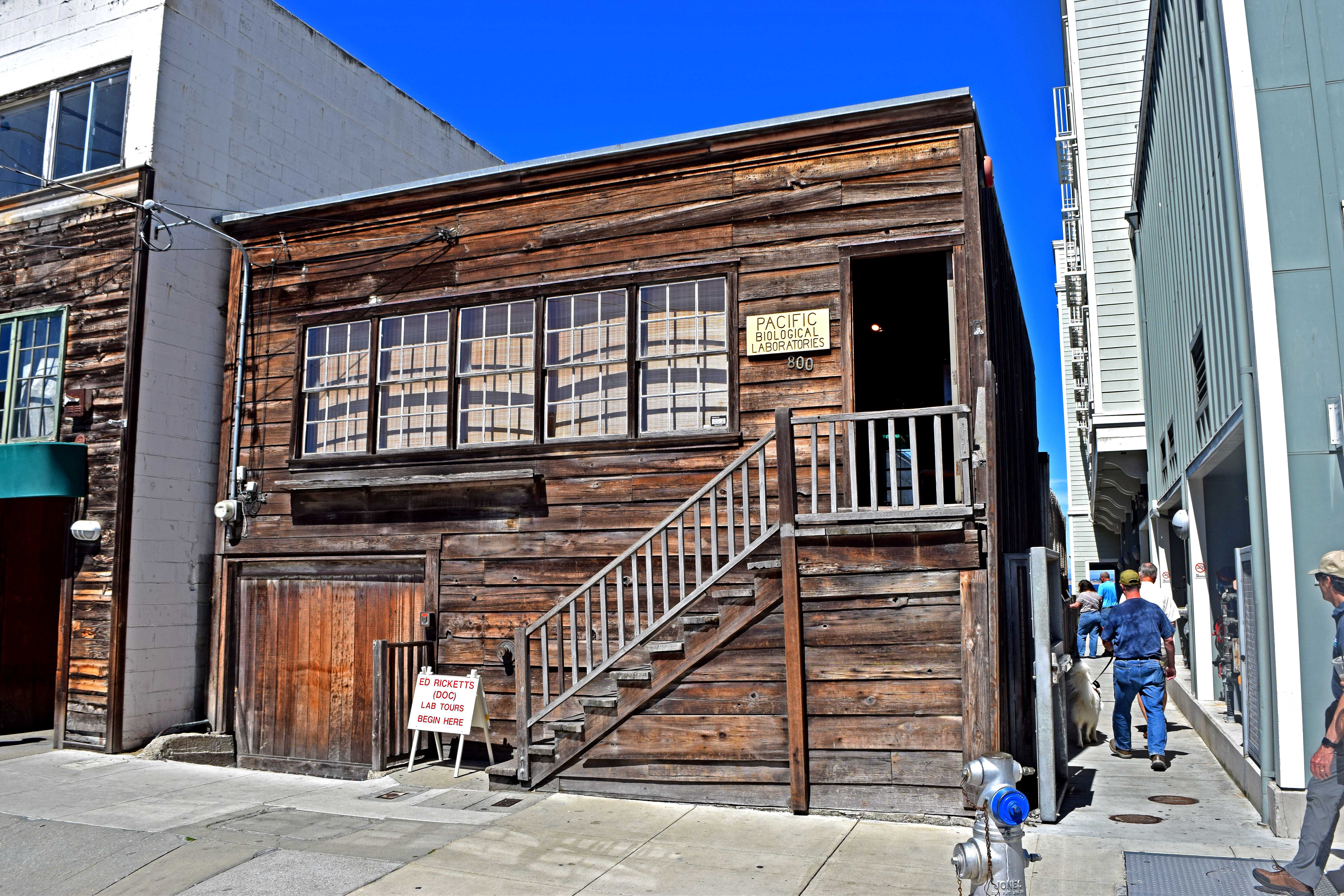 Pacific Biological Laboratories, exterior 2016.